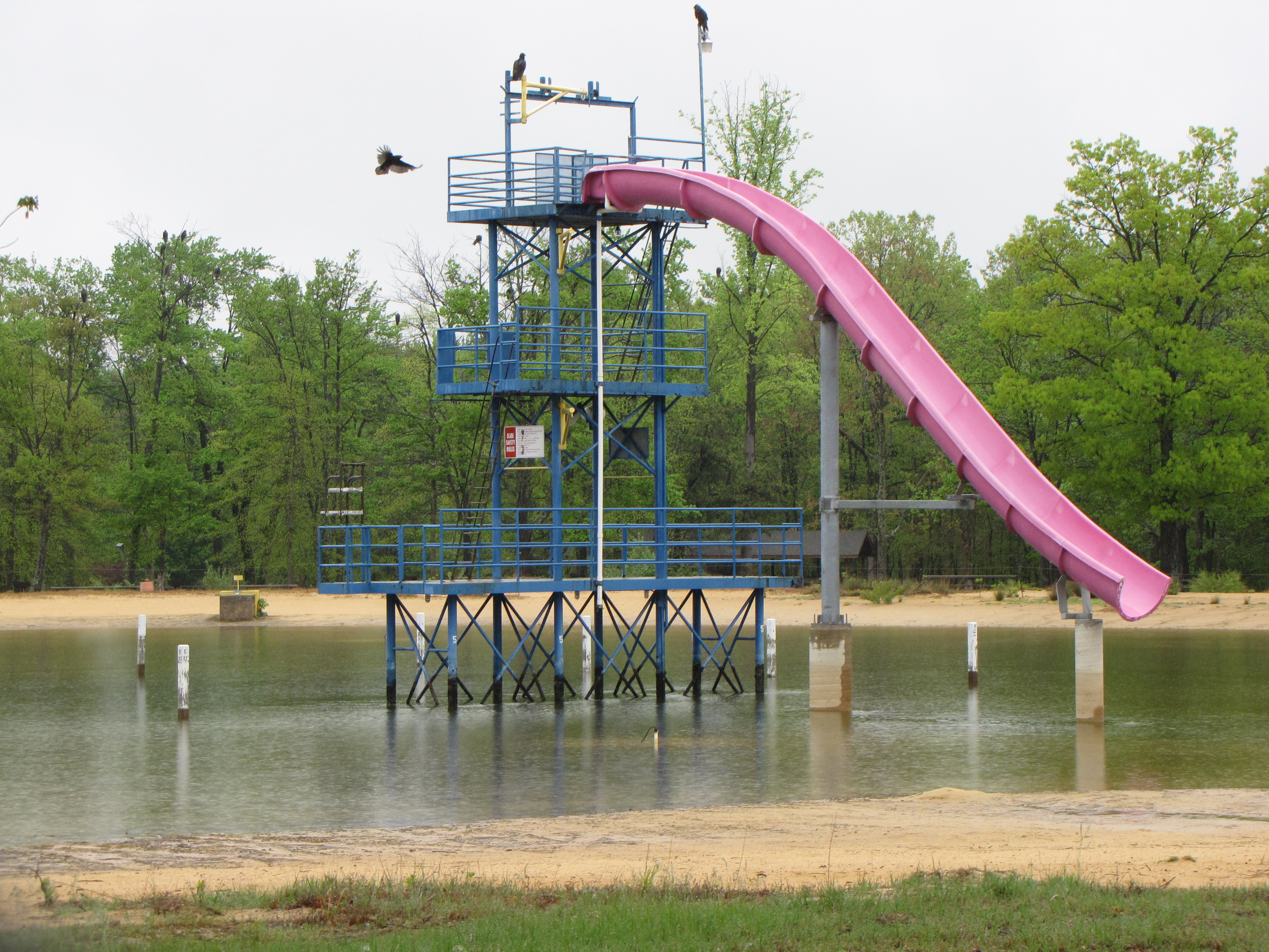 Tower and Pink Zipper slide at Shenandoah Acres in Stuarts Draft, Virginia. This tower previously contained a cable ride on it before being replaced with the Pink Zipper.